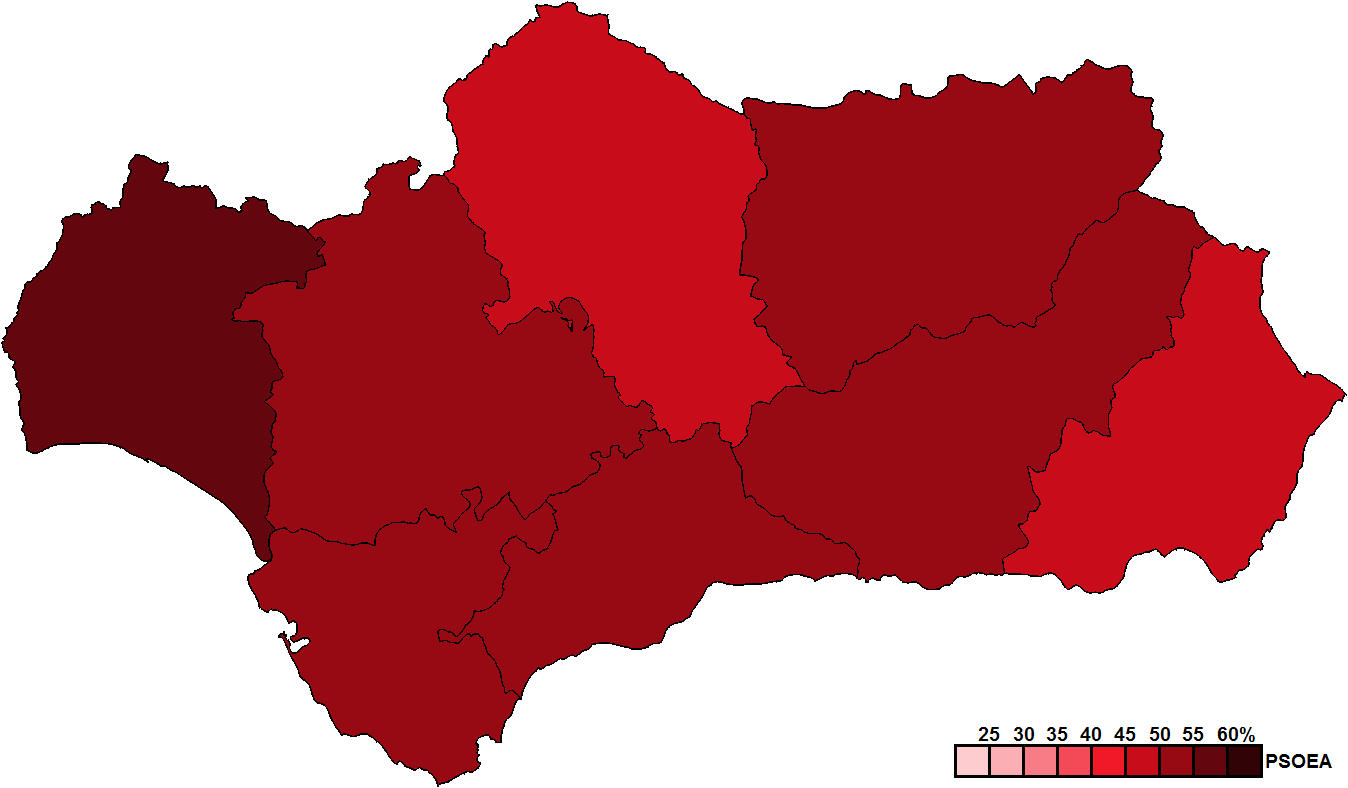 Provincial results for the 1982 Andalusian regional election.